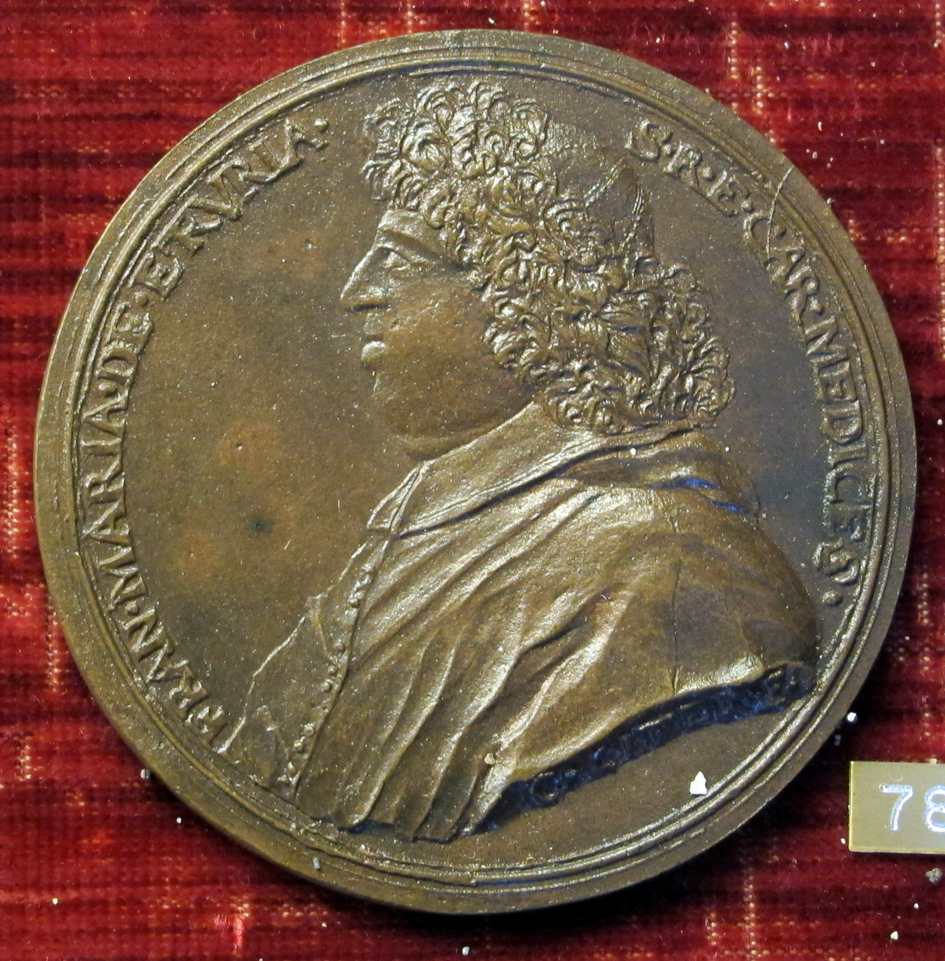 Medal of Francesco Maria de' Medici (1660-1711). Rococo medal of Florence